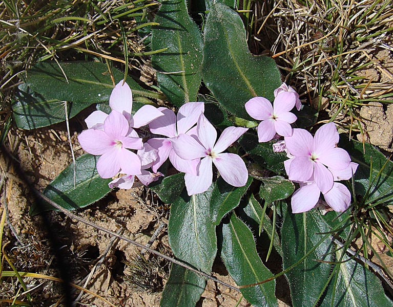 From the Acanthus Family. Here in southern Chile it is known as Hierba de la piñada. In context at